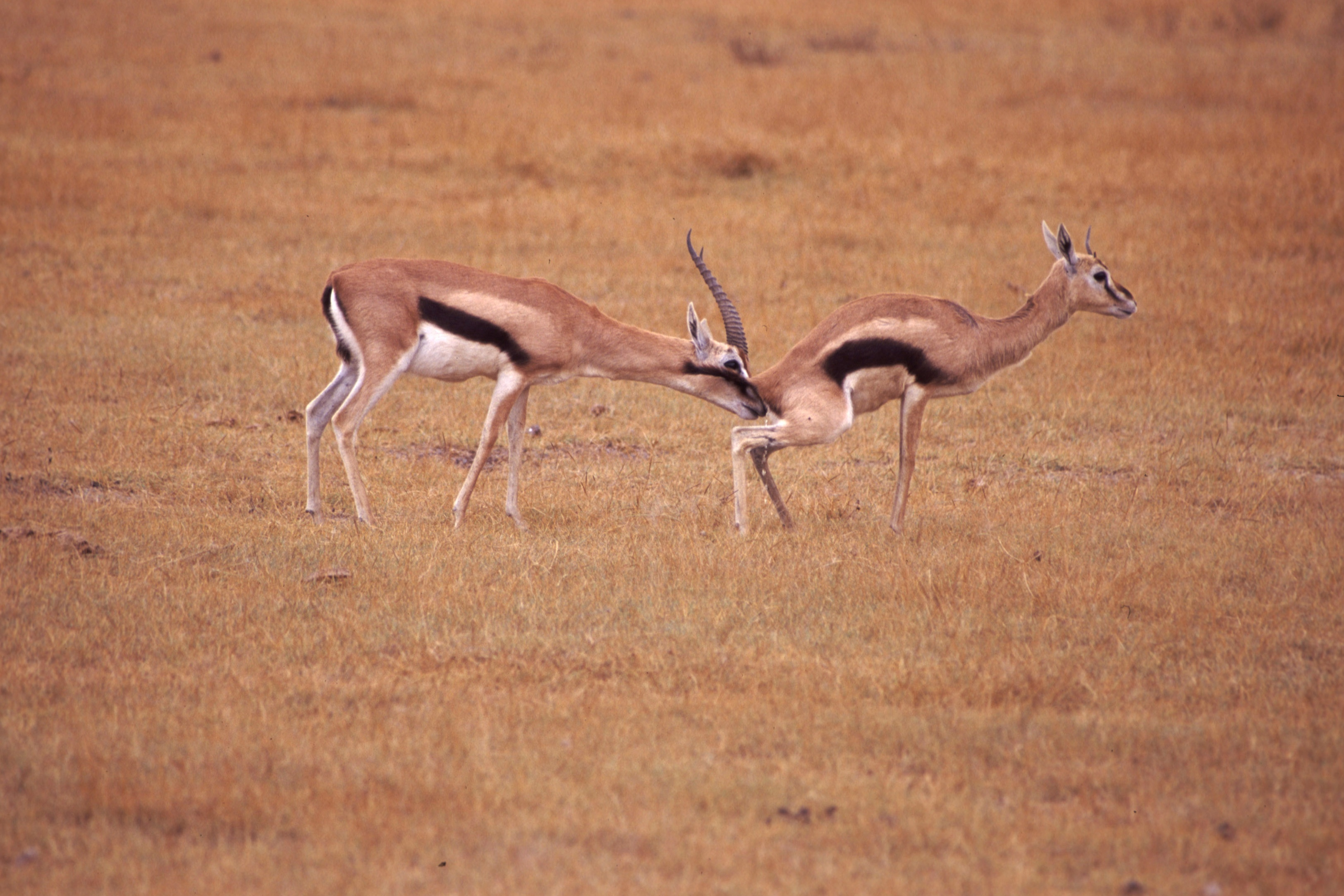 Gazella thomsonii, Male gazelle checking female's receptivity to mating. Taken on safari in Tanzania.